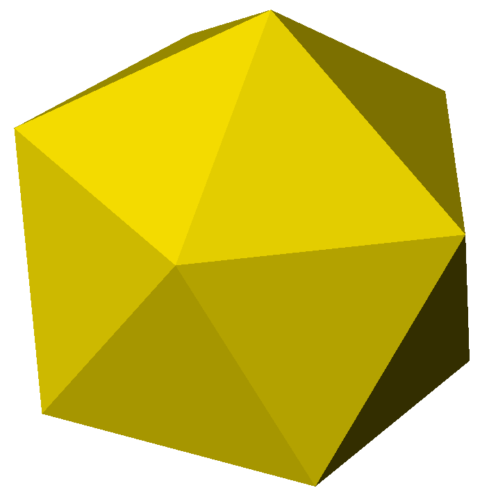 Transition Dodecahedron to Icosahedron 5of5